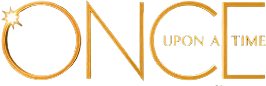 Original logo used for the promotion of the television series Once Upon A Time (text).